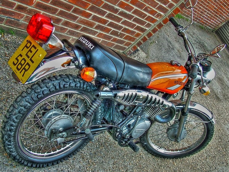 HDR photo of Suzuki TS185 2-stroke motorcycle